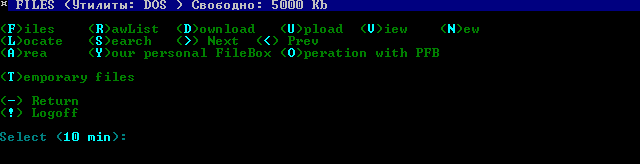 Typical BBS File Menu